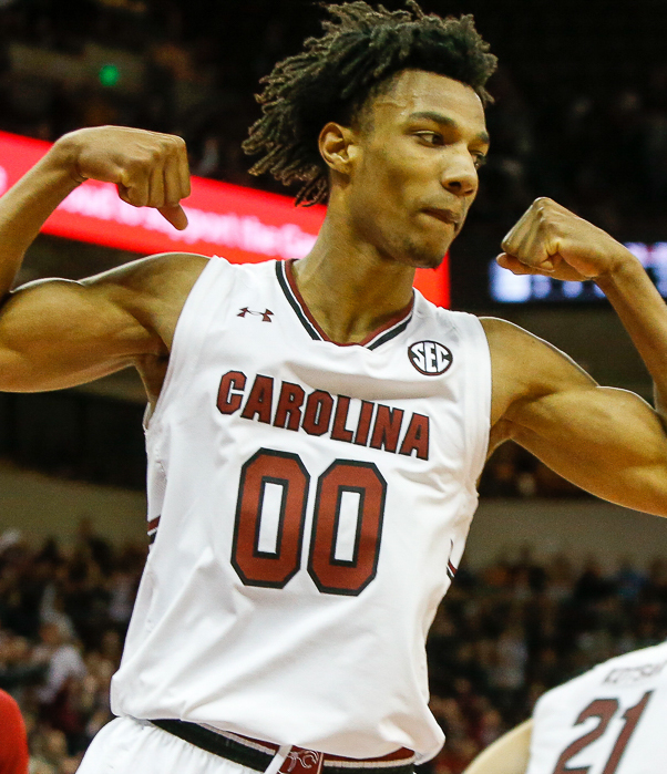 Photo by Chris Gillespie